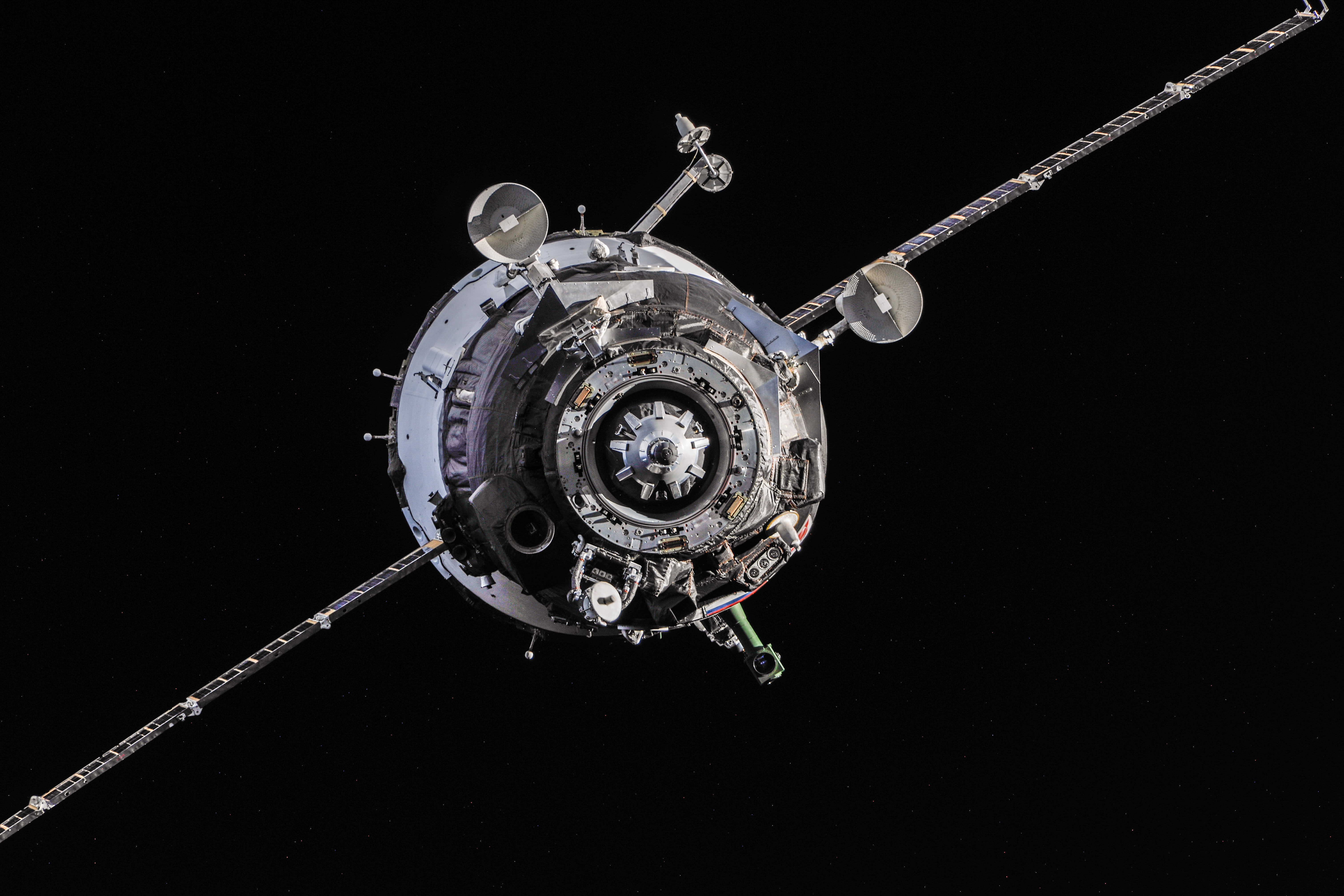 ISS037-E-002670 (25 Sept. 2013) --- The Soyuz TMA-10M spacecraft approaches the International Space Station, carrying Expedition 37 Soyuz Commander Oleg Kotov, NASA Flight Engineer Michael Hopkins and Russian Flight Engineer Sergey Ryazanskiy. The Soyuz docked to the Poisk Mini-Research Module 2 (MRM2) at 10:45 p.m. (EDT) on Sept. 25, 2013.